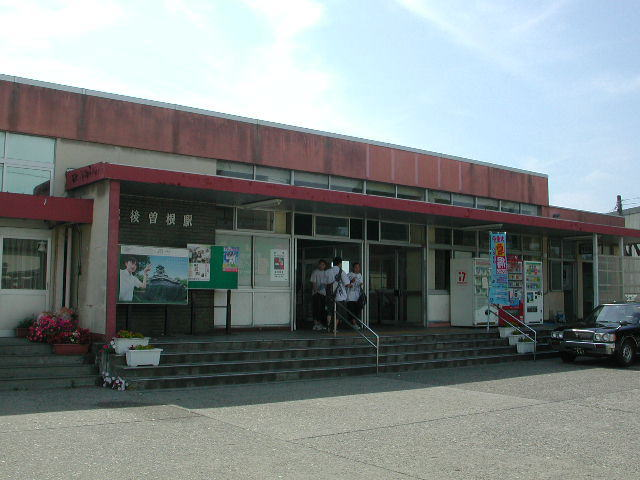 Echigo-Sone Station in Nishikan-ku, Niigata city, Niigata Prefecture, Japan